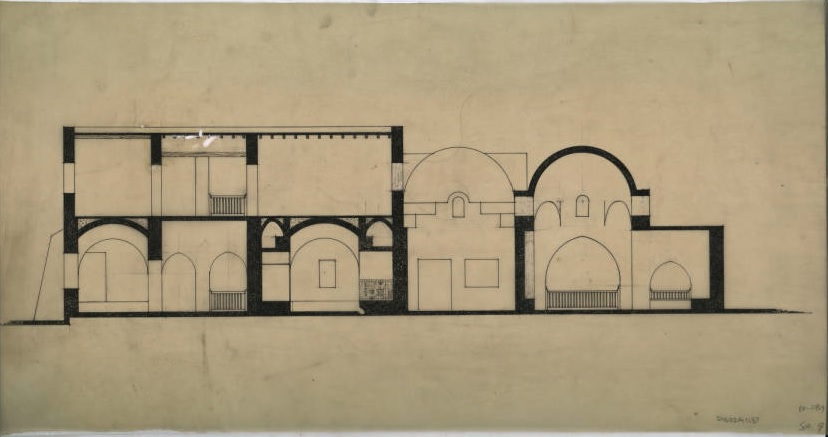 Section showing the craft exhibition hall of New Gourna Village